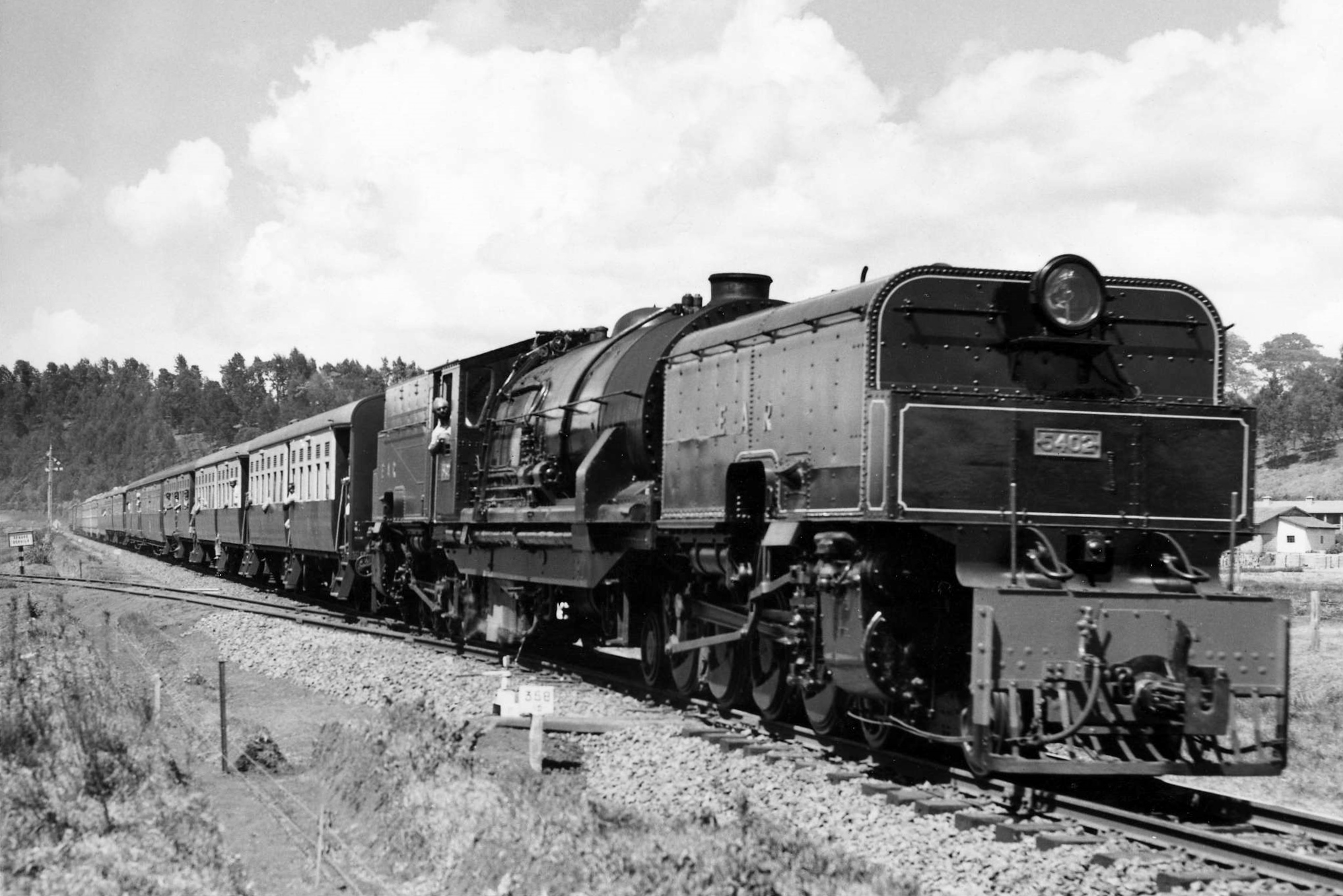 East African Railways 54 class locomotive no. 5402 with a passenger train at Limuru, Kenya. The class was originally known as the Kenya-Uganda Railway EC4 class.